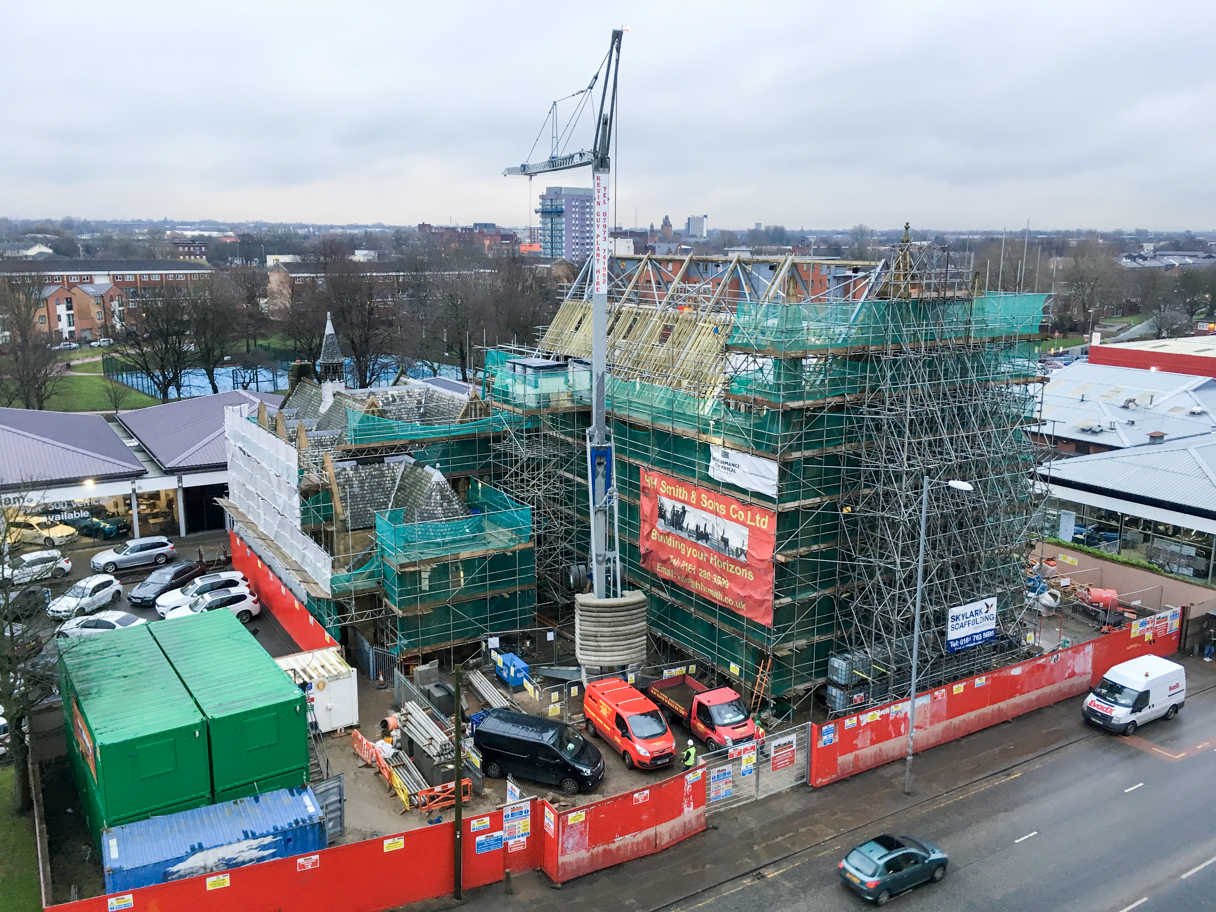 Upper Brook Street Chapel, Manchester, United Kingdom